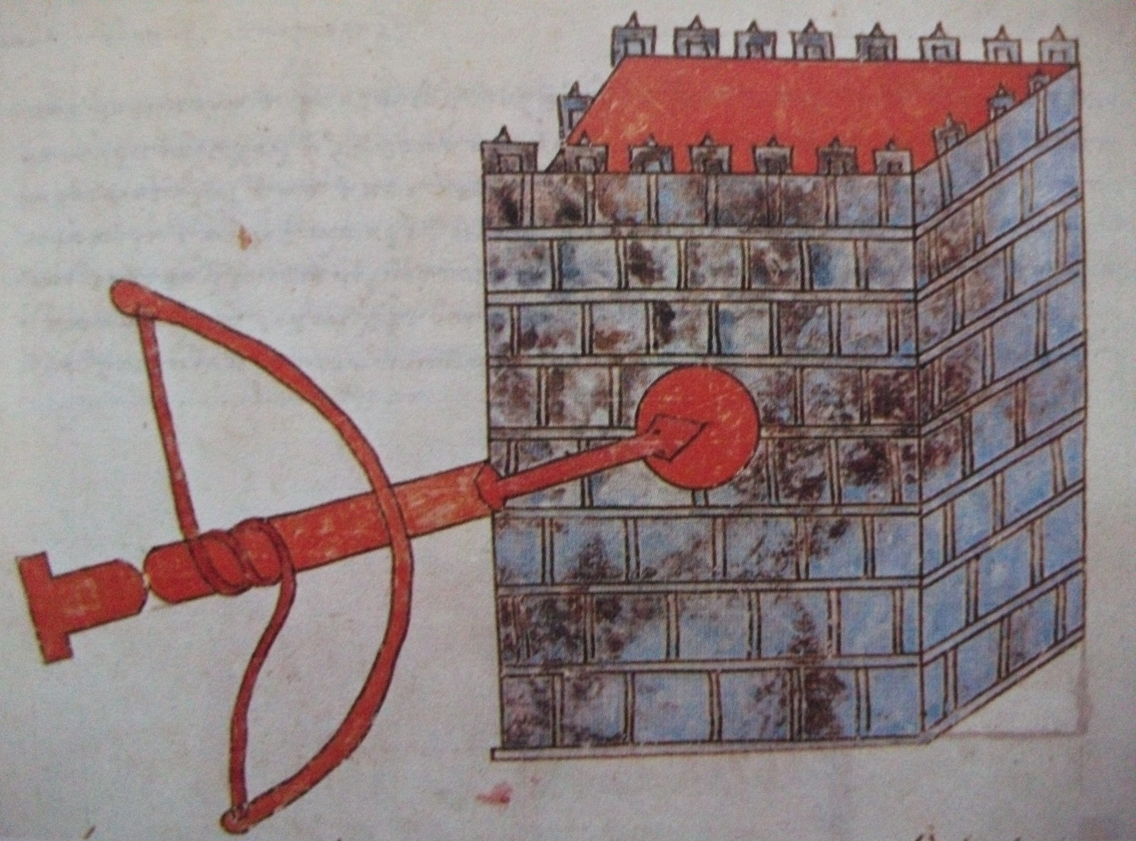 Picture of an byzantine siege weapon in action (11th century).